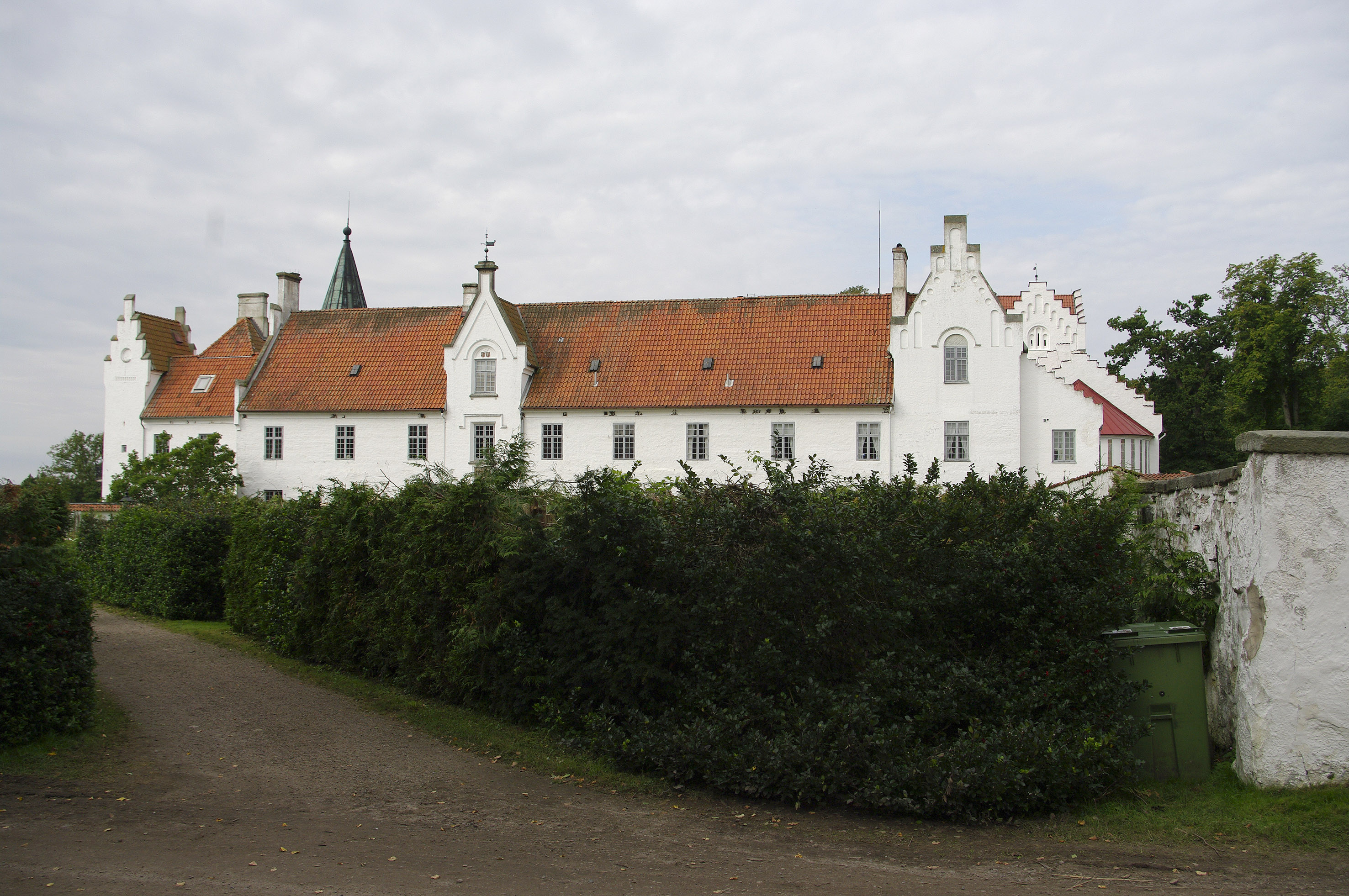 The monastry of Bosjo in Scania, Sweden.